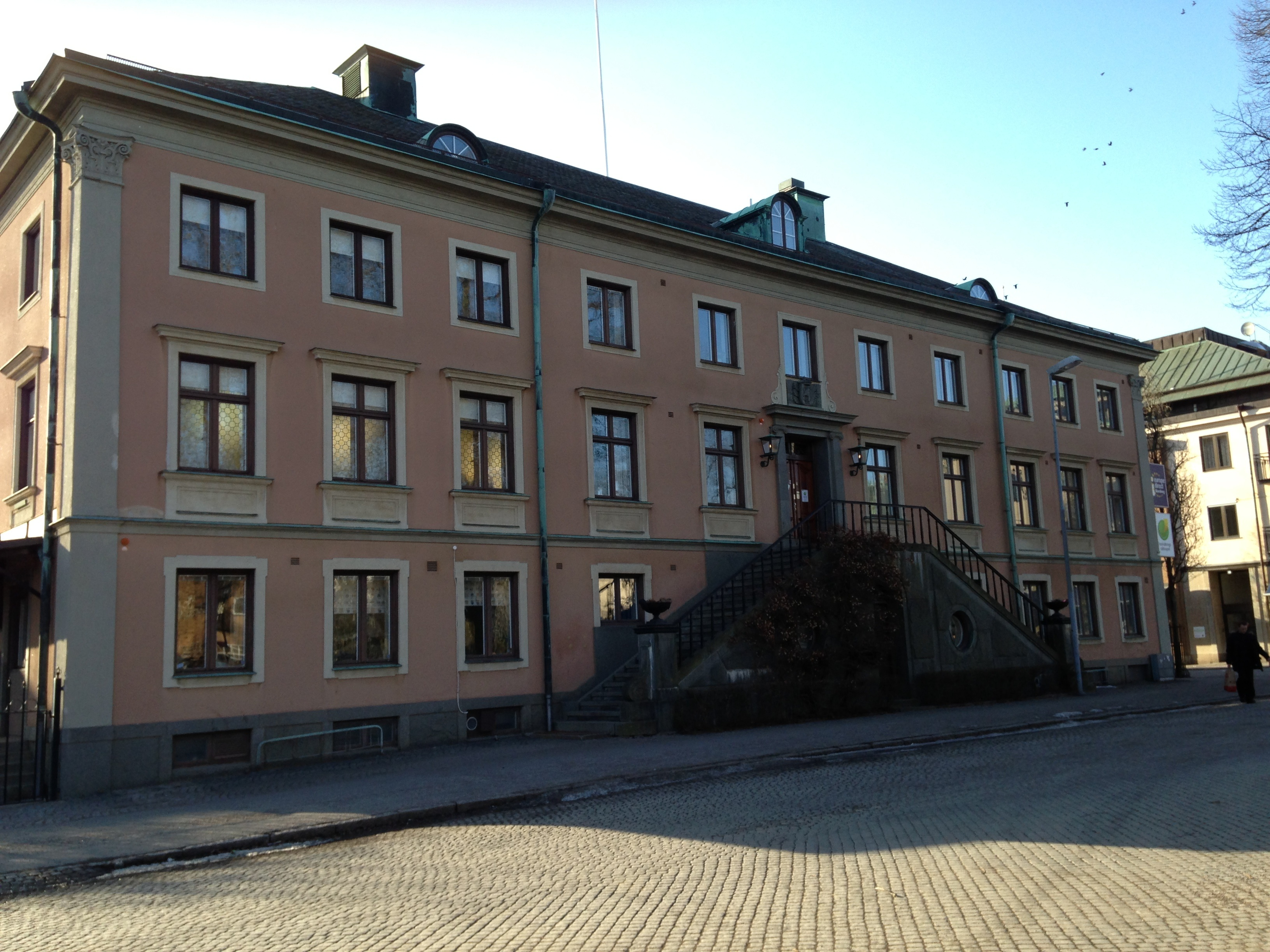 Societet for Housekeeping in Skara